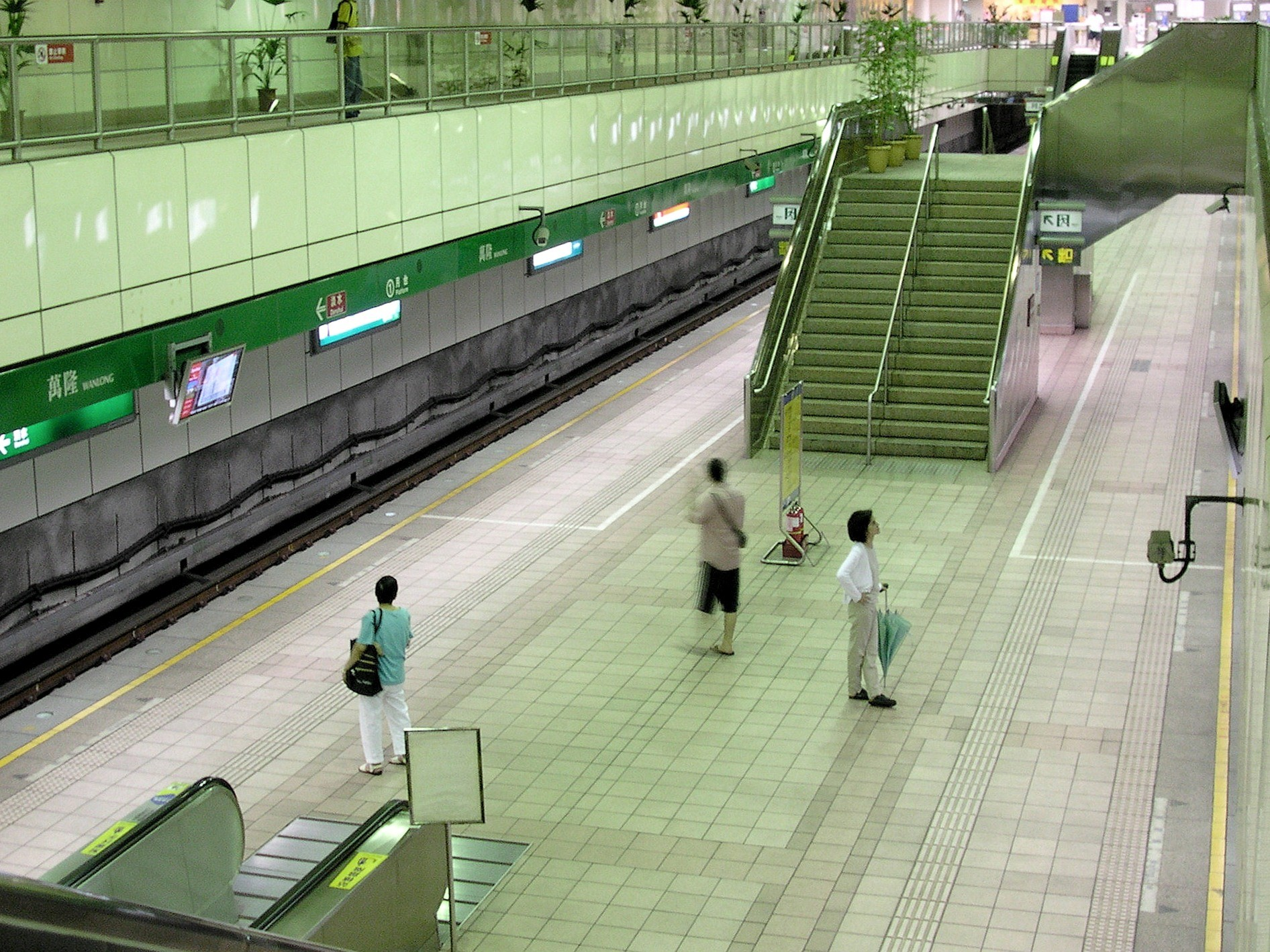 Inside Taipei MRT Wanlong Station